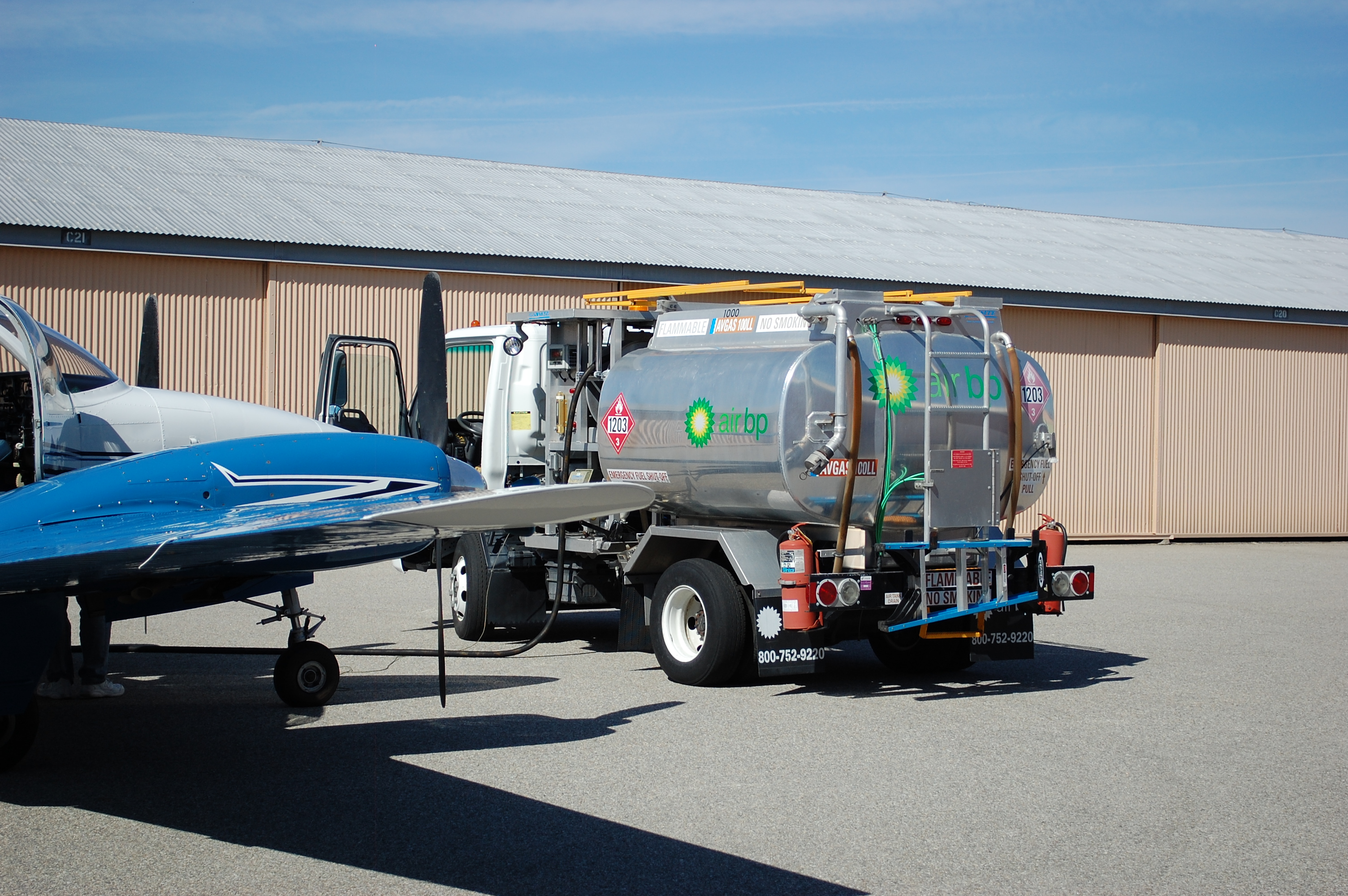 An Air BP fuel truck fills a Beechcraft Baron at Oxnard Airport.